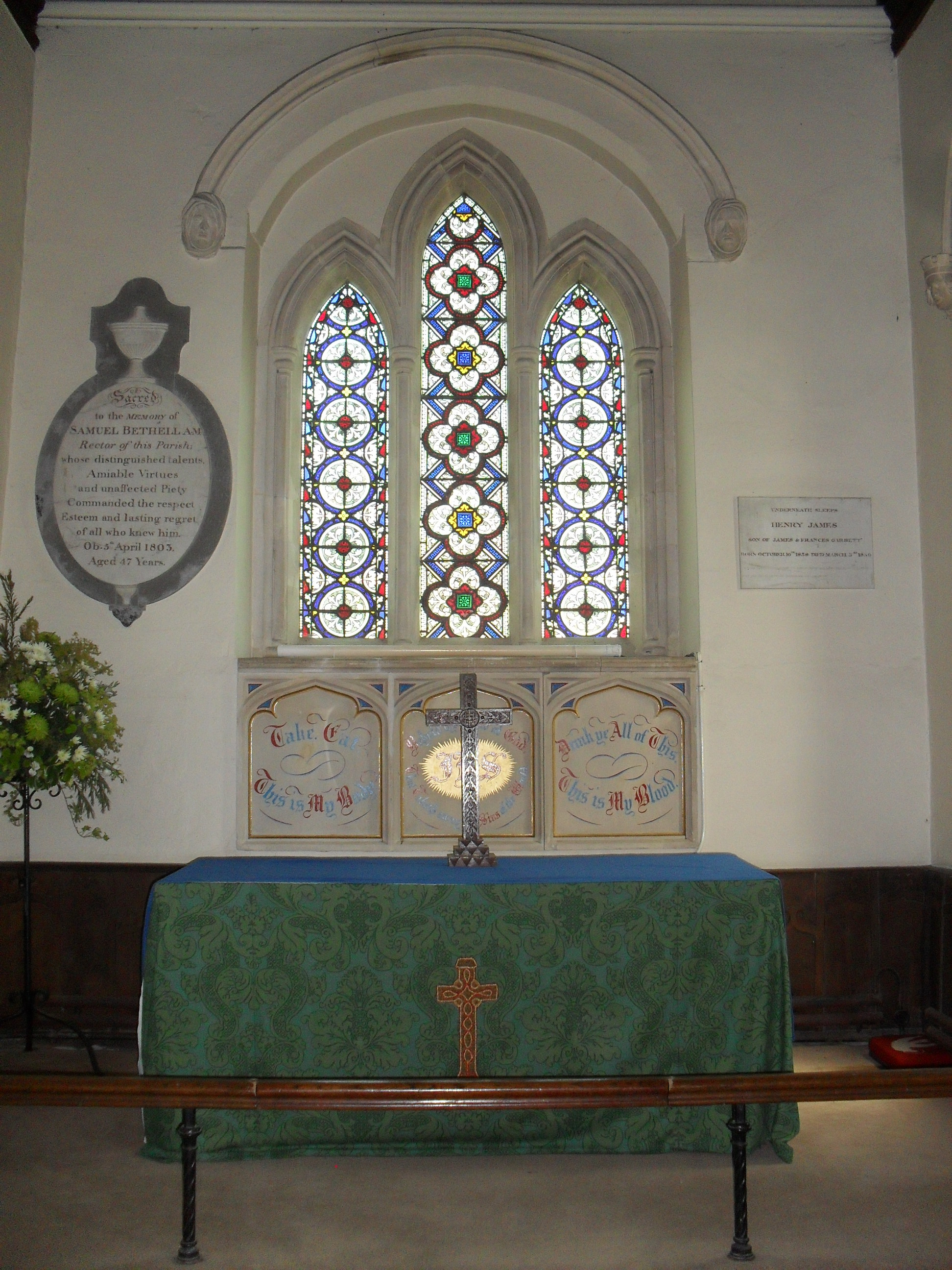 Altar and east window at the Grade I-listed St John the Baptist's Church, Clayton, West Sussex, England.